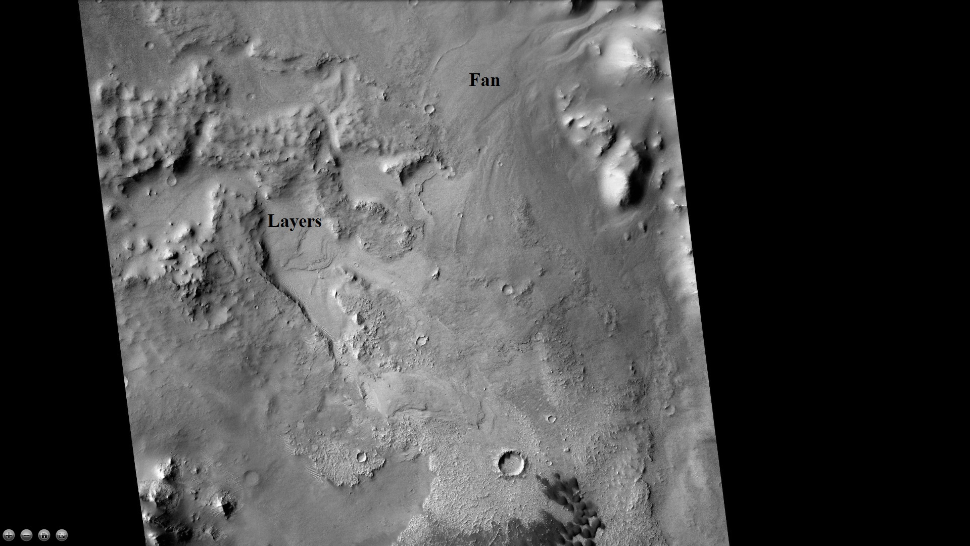 Jones Crater, as seen by ctx